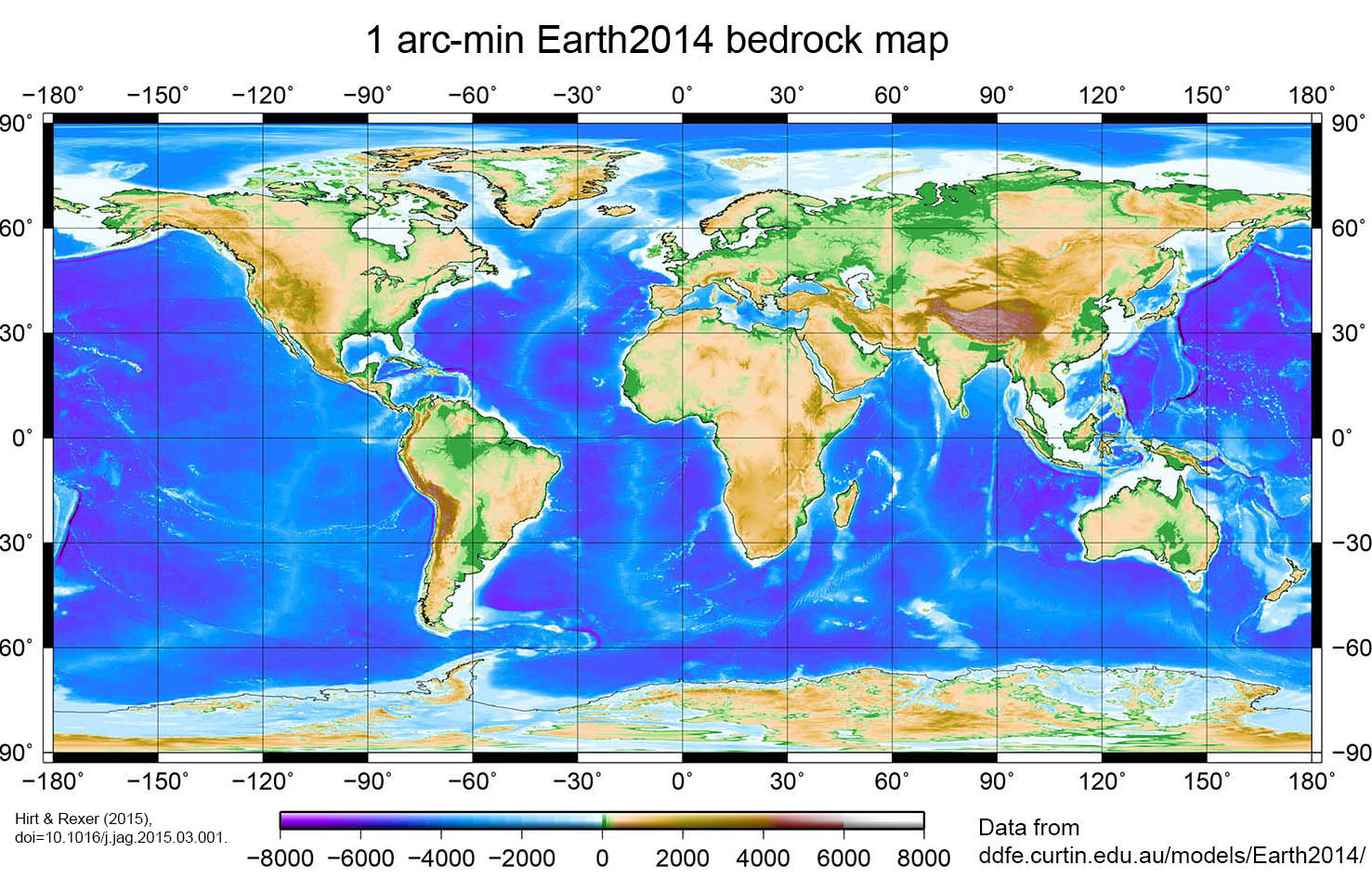 Bedrock topography from the Earth2014 model (1.8 km resolution)